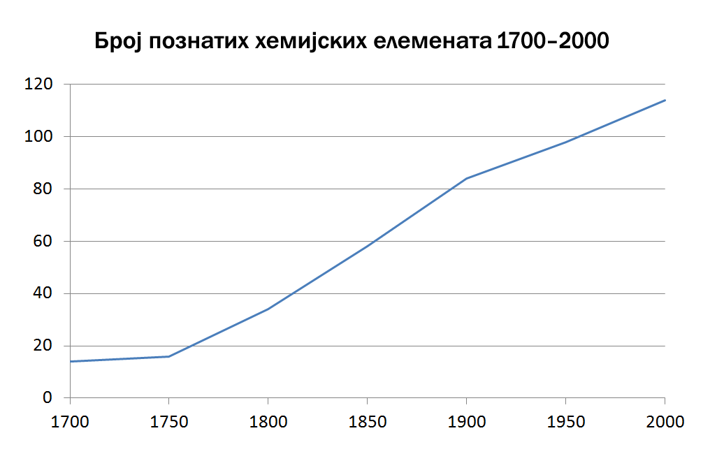 Graph of number of known chemical elements from 1700 untill 2000 [in Serbian]